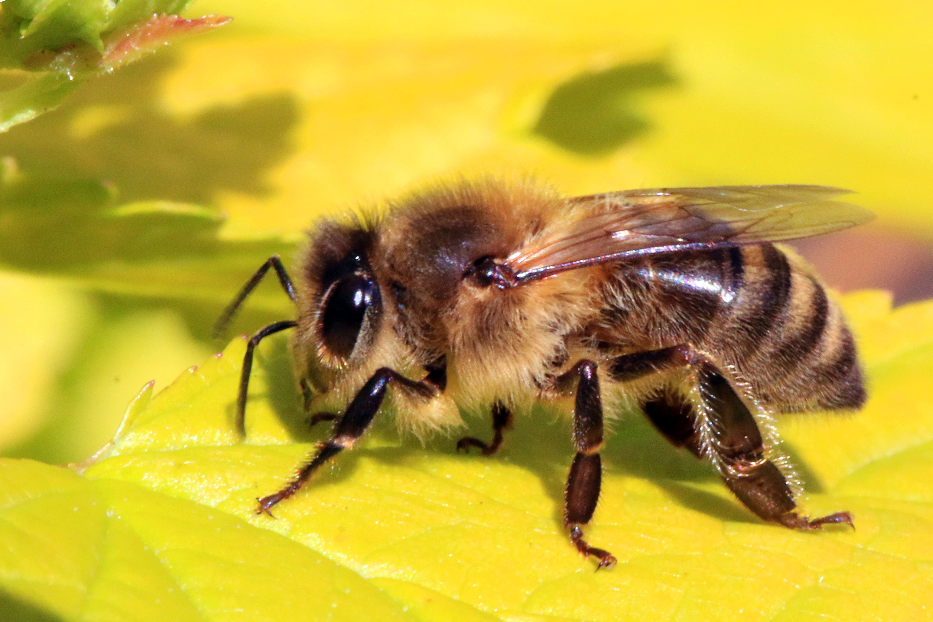 Honey bee (Apis mellifera), Cumnor Hill, Oxford